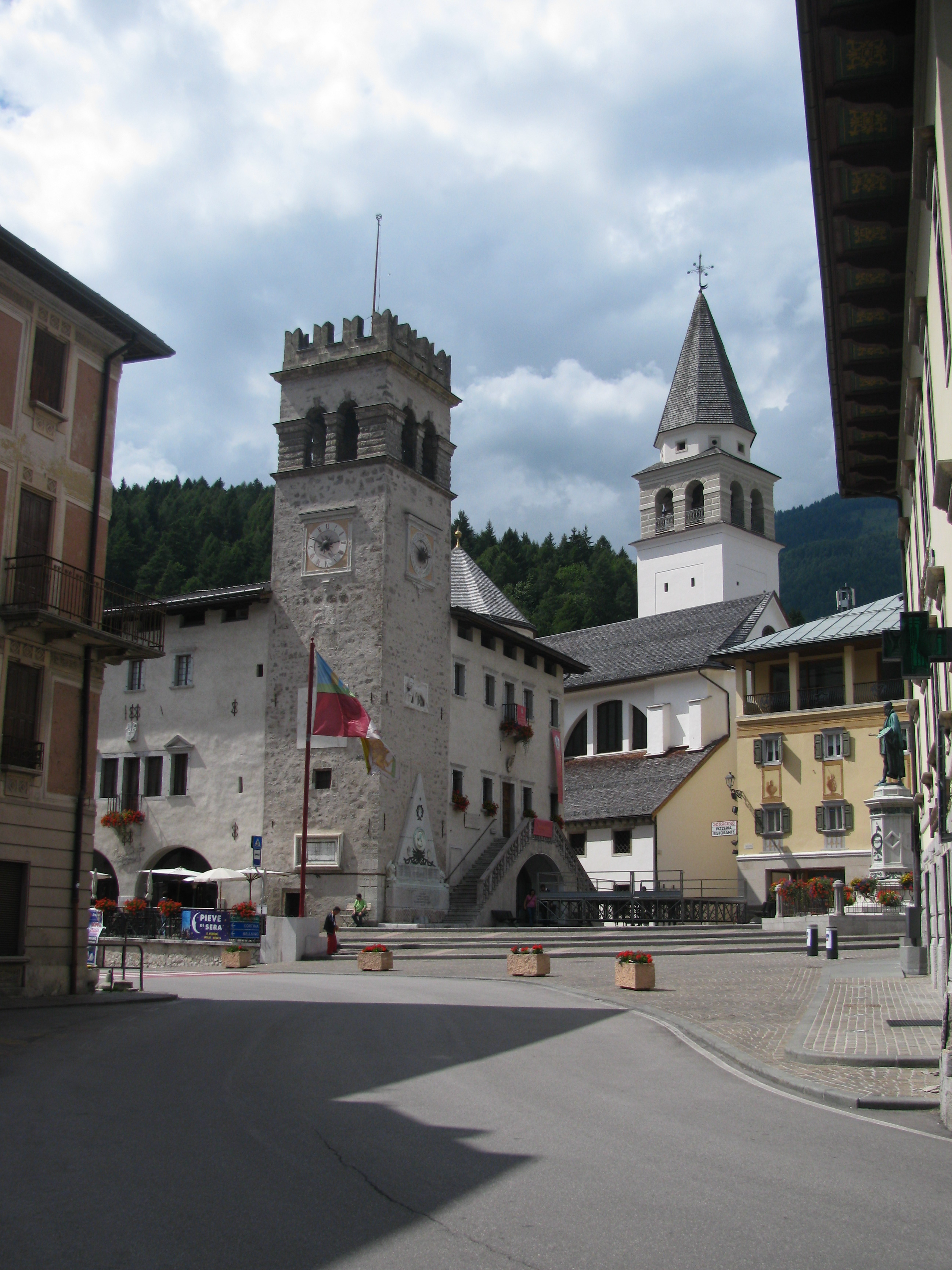 Tiziano Square in Pieve di Cadore, BL, Italy. In the background there are the "Magnifica Comunità" Palace and the Archdeaconal Church of St. Mary Borning.